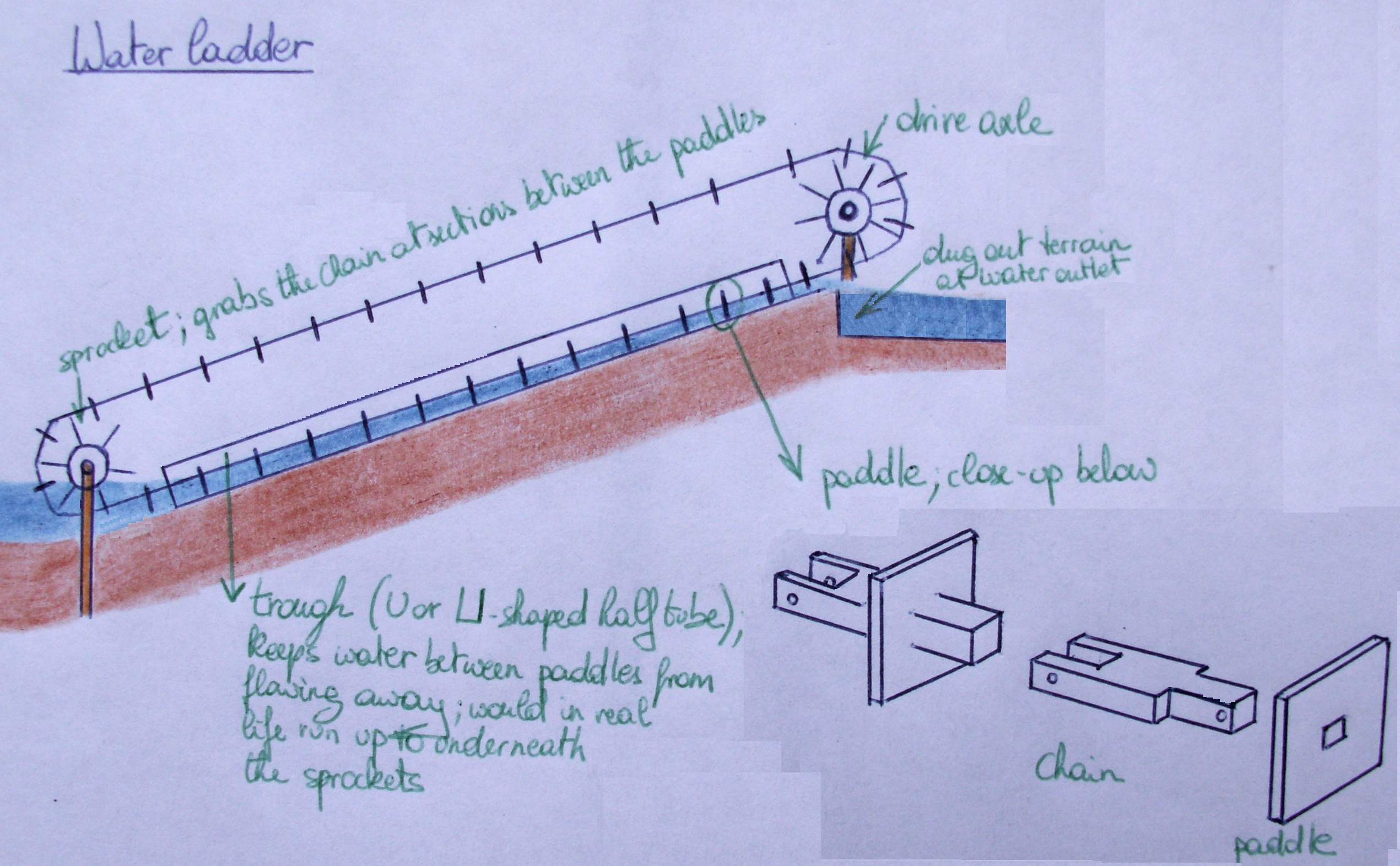 A schematic of a waterladder pump. The schematic was hand drawn based on an image at